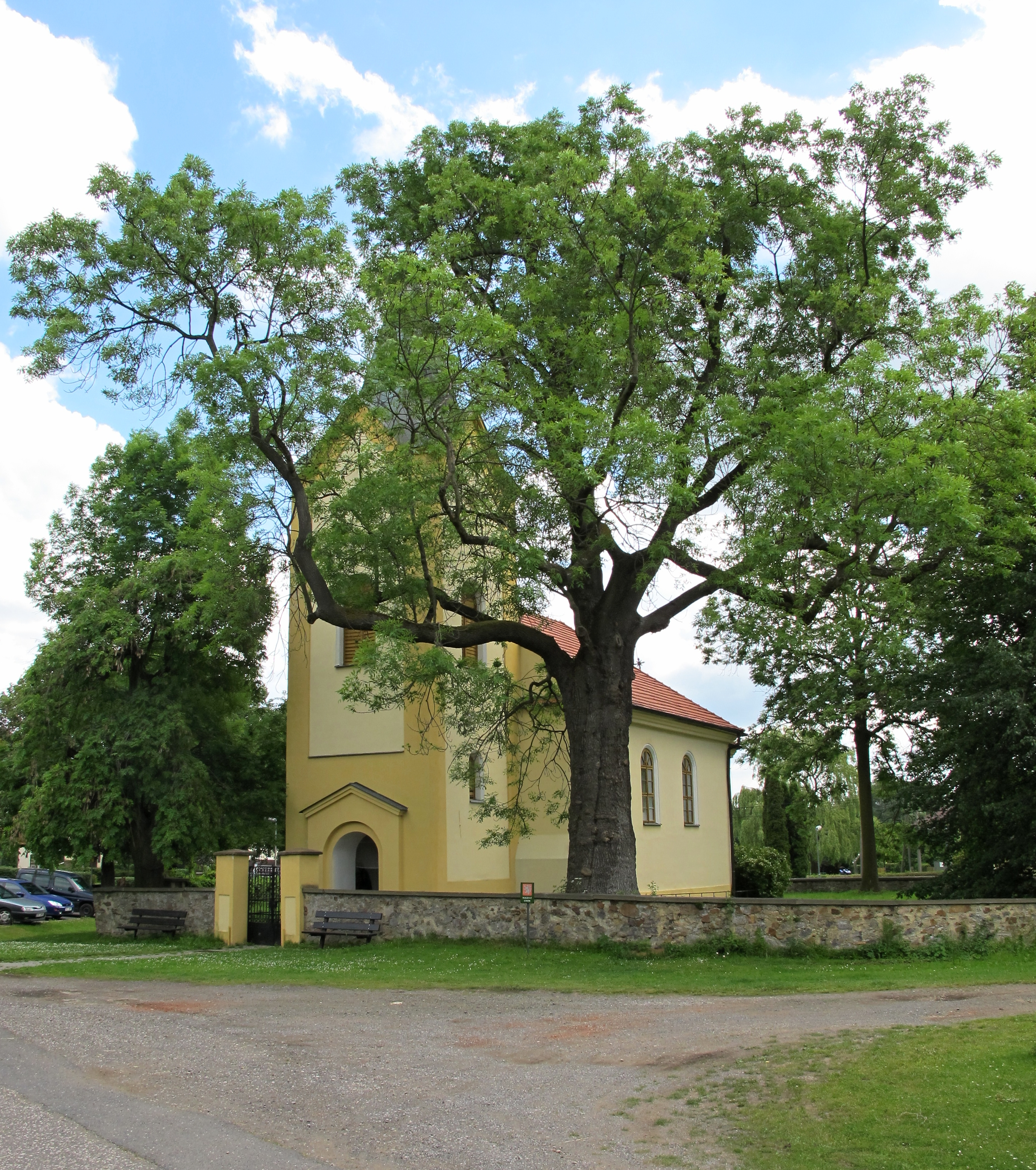 Famous tree - Fraxinus excelsior, near church in Kytín in Prague-West District